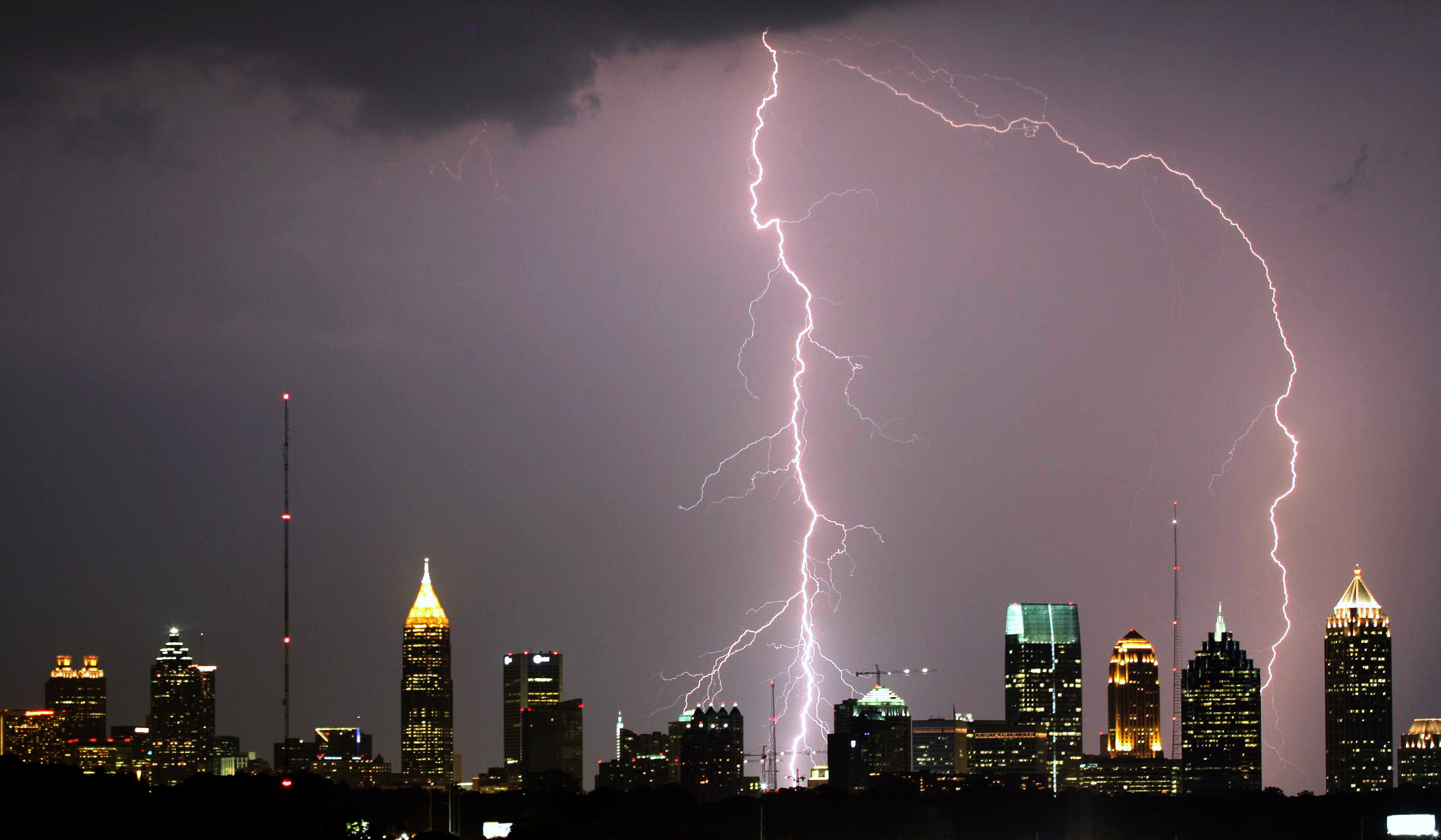 Lightning bolts hitting Atlanta skyscrapers